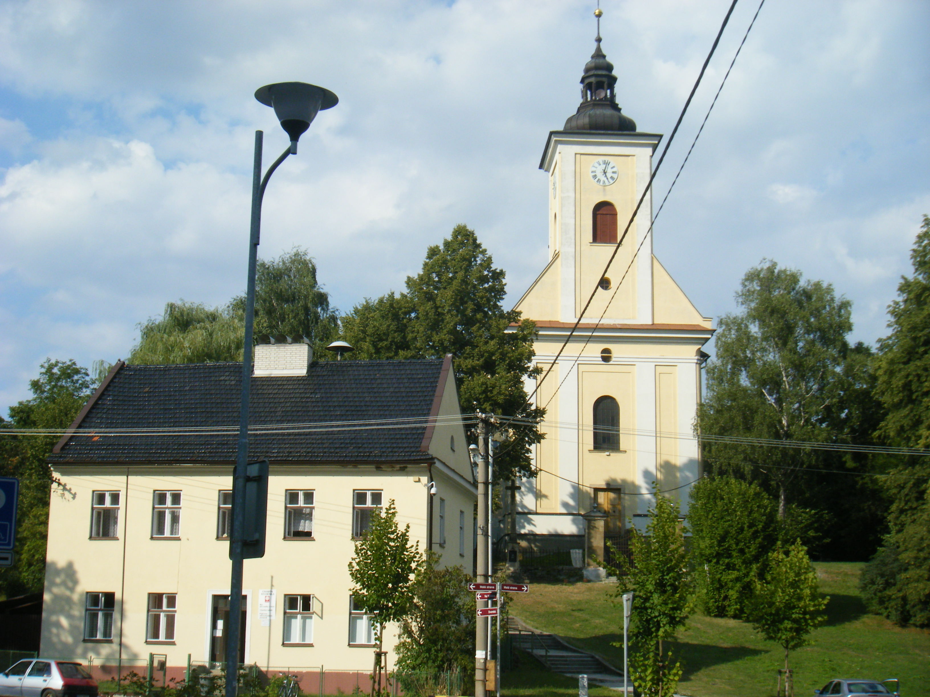 Studénka-Butovice, former vicarage and All Saints Church